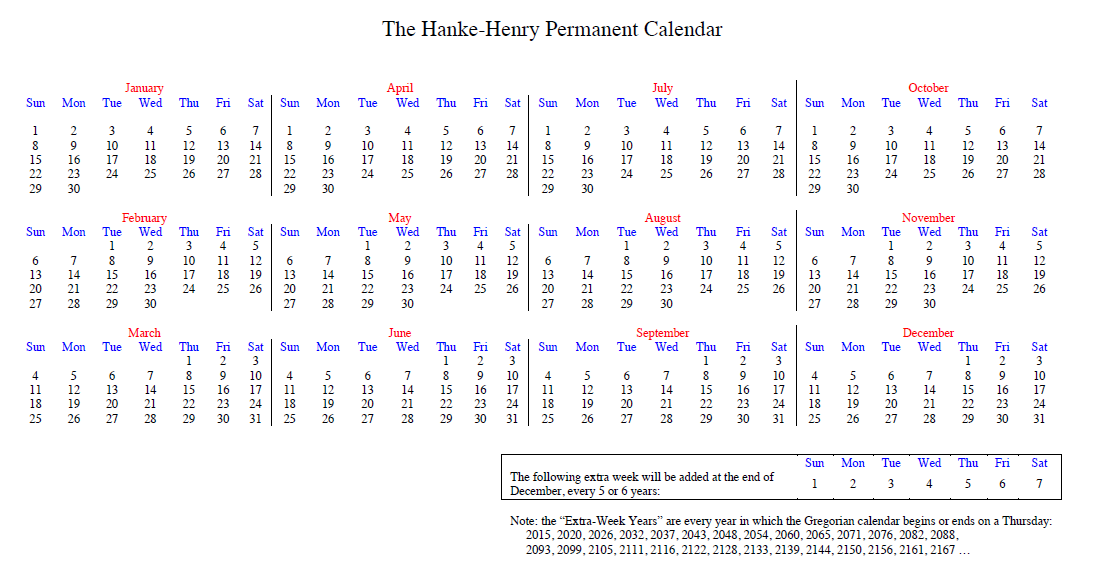 Steve Hanke-Richard Henry Permanent Calendar Squeakycatta (talk) 07:52, 1 January 2012 (UTC)